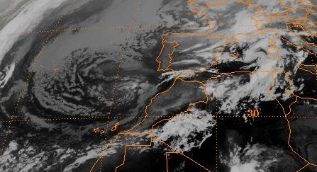 The extratropical remnants of Hurricane Arlene near Spain